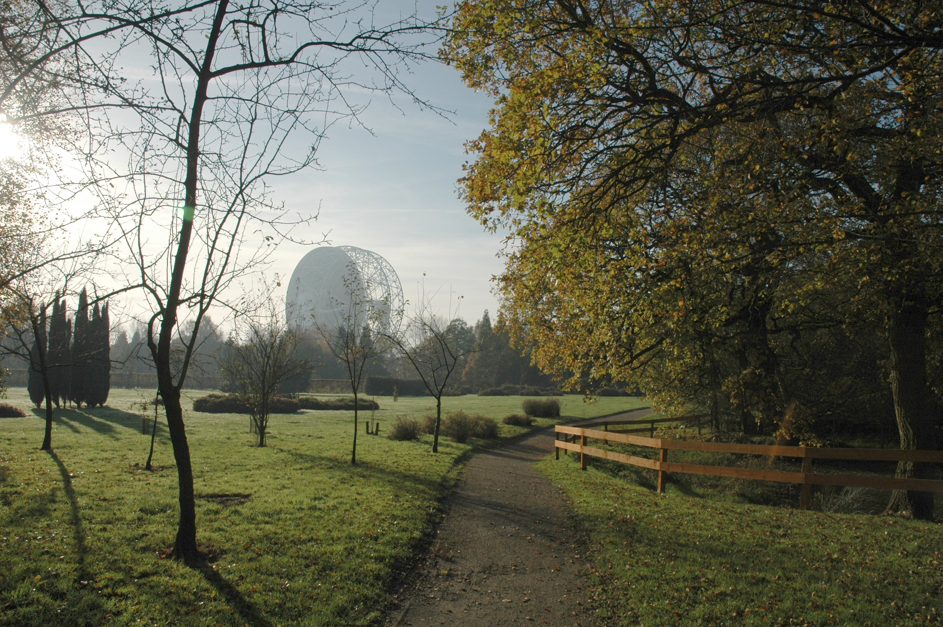 A view of the radio telescope from the Arboretum at Jodrell Bank.